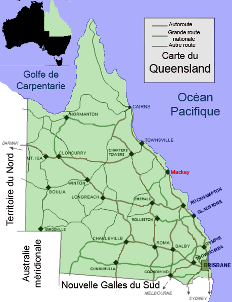 Mackay, Queensland, Australie (carte)